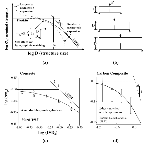 explaining the size effect